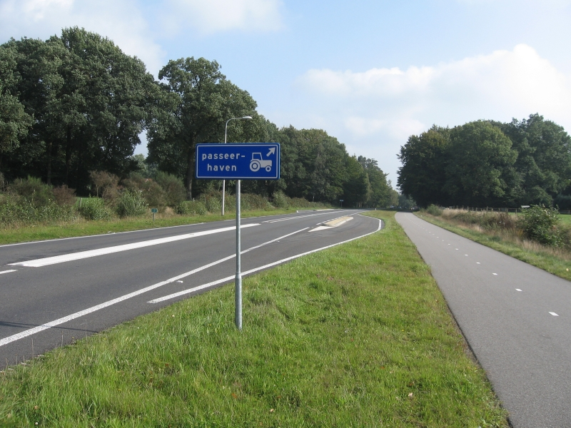 Passing spot on the Dutch Provincial road 734